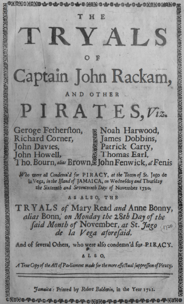 Cover page from the transcript of Rackham, Read, and Bonney's 1721 trial.